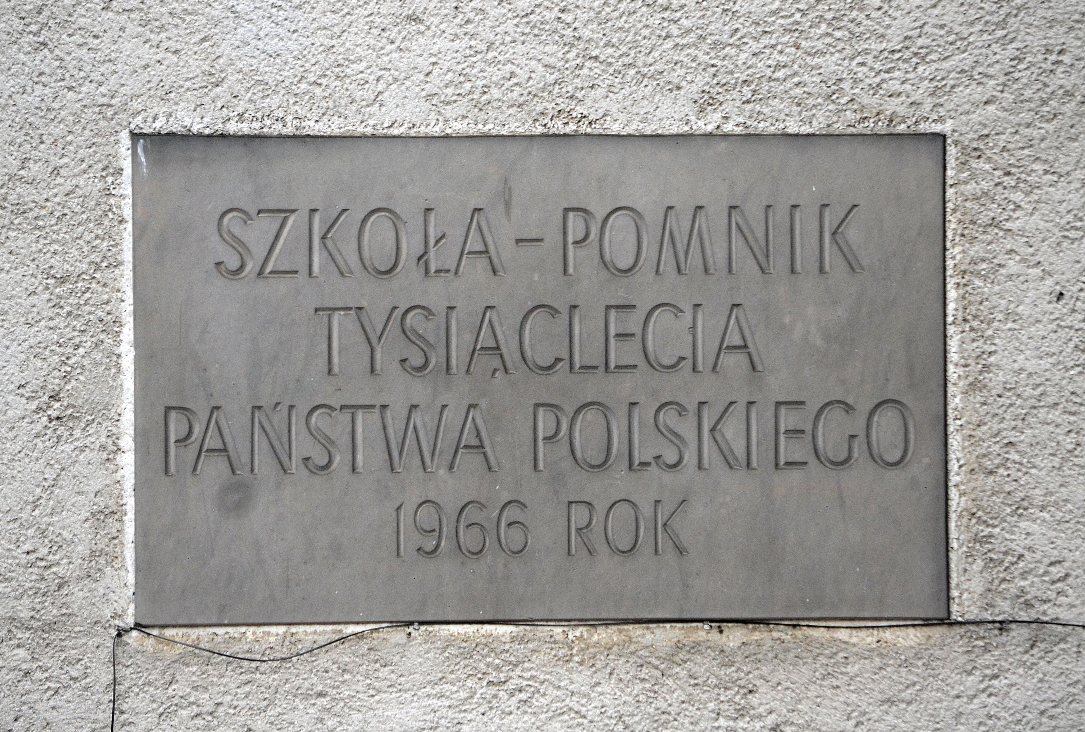 Plaque on the former school building at 5 Śliska Street in Warsaw